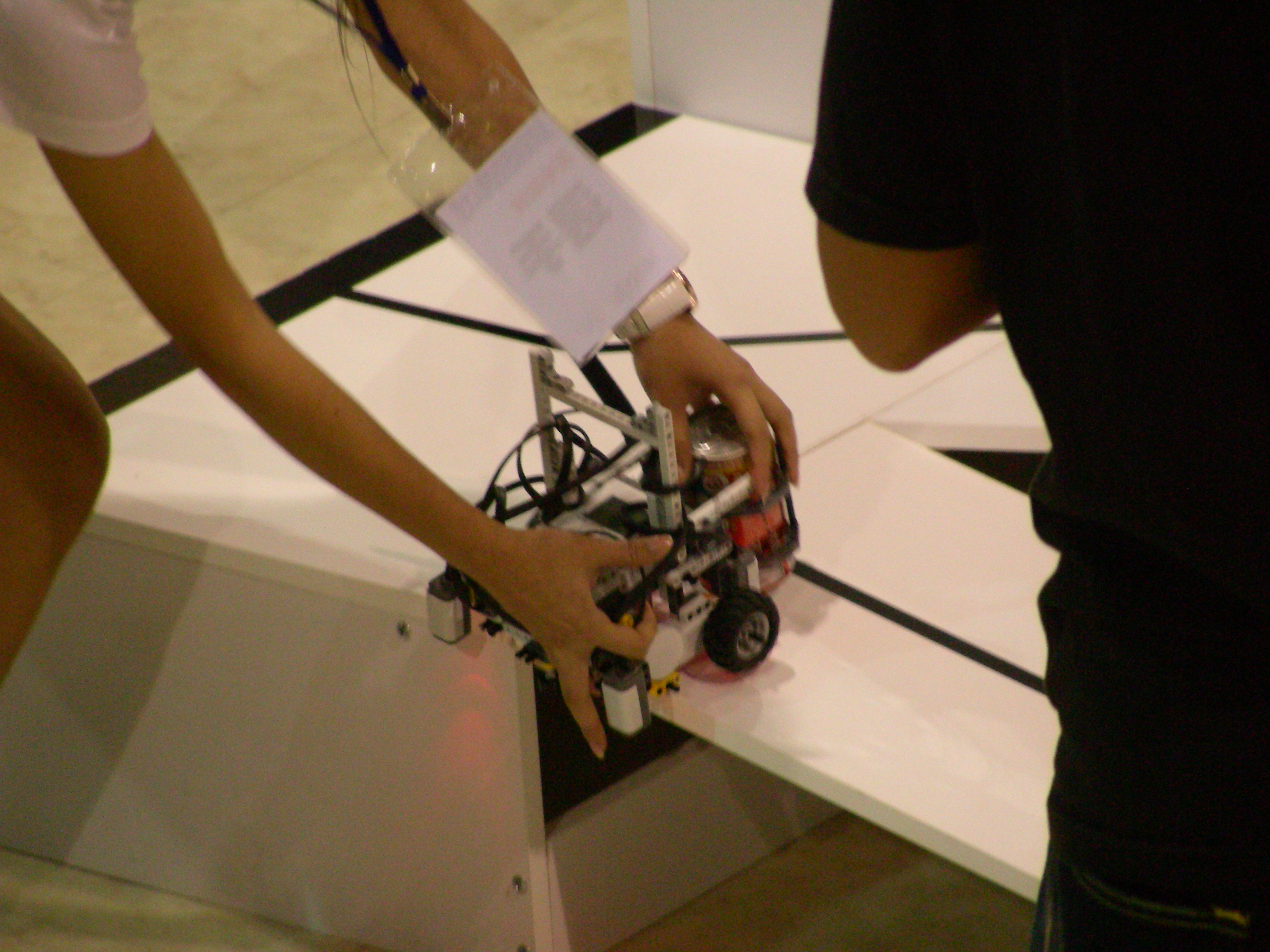 World Robot Olympiad Taiwan heat